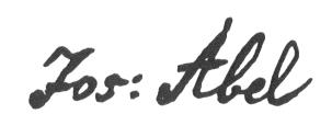 Signature of Josef Abel (1764-1818, Austrian painter)